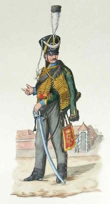 Elbnationalhusaren 1813-1815 (Prussian light cavalry). Uniform colour plate by F.Neumann around 1850. Kunstbibliothek in Berlin - Lipperheidsche Kostümbibliothek